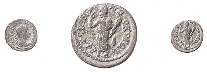 IONIA, Ephesus. Gallienus. 253-268 A.D. 22mm philosopher Heraclitus (the obscure)